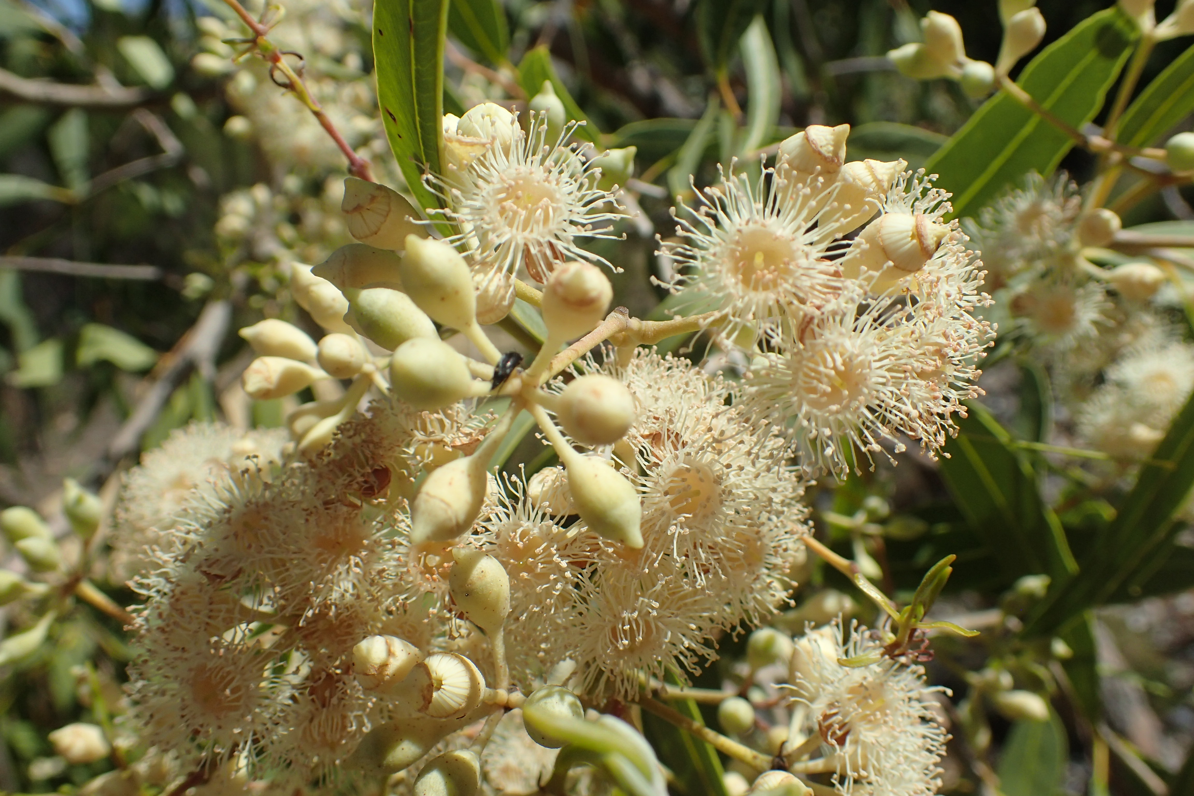 Flower buds and flowers of Corymbia opaca in Kings Park Botanic Garden